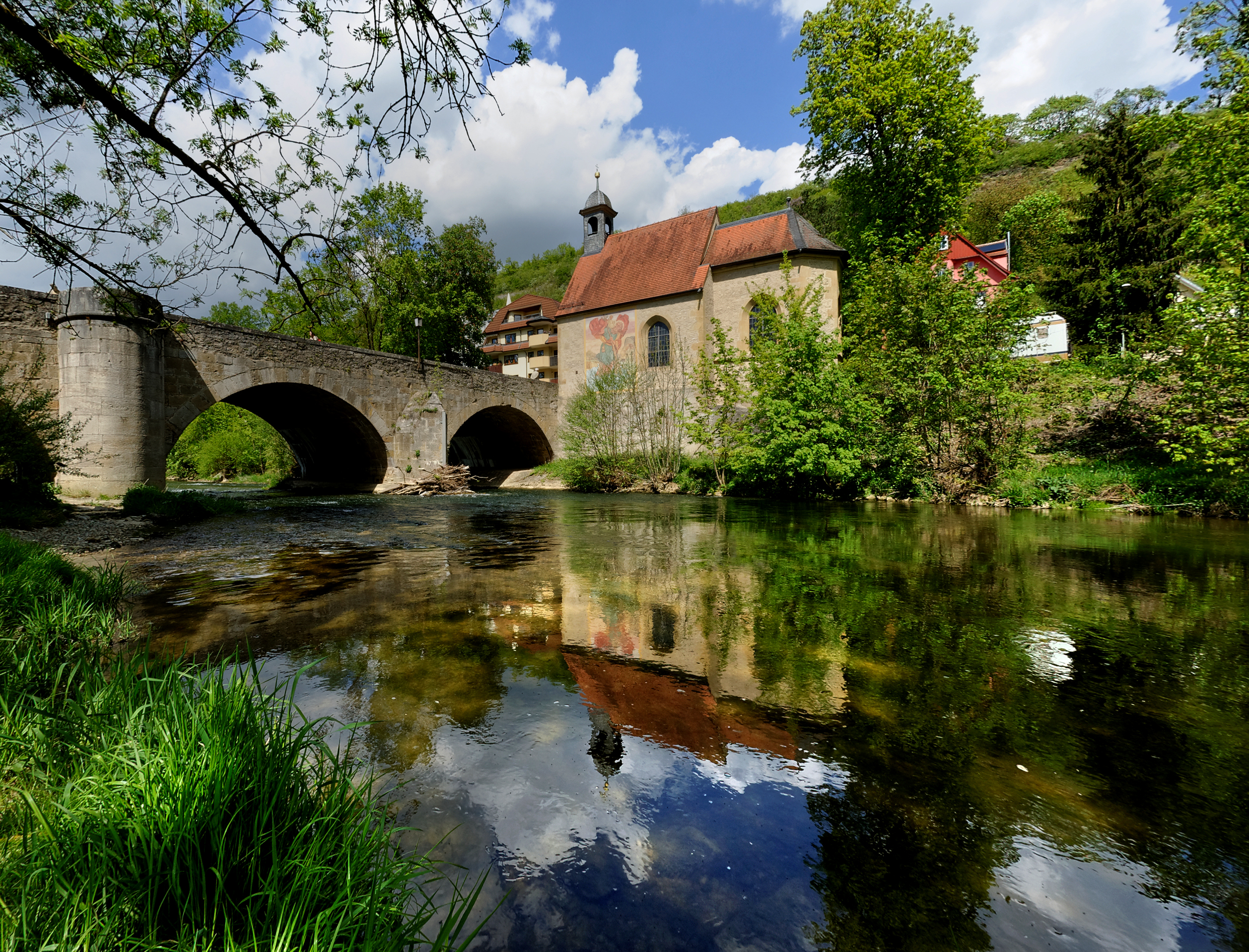 The Wolfgang chapel on der Tauber, popular and very romantic.